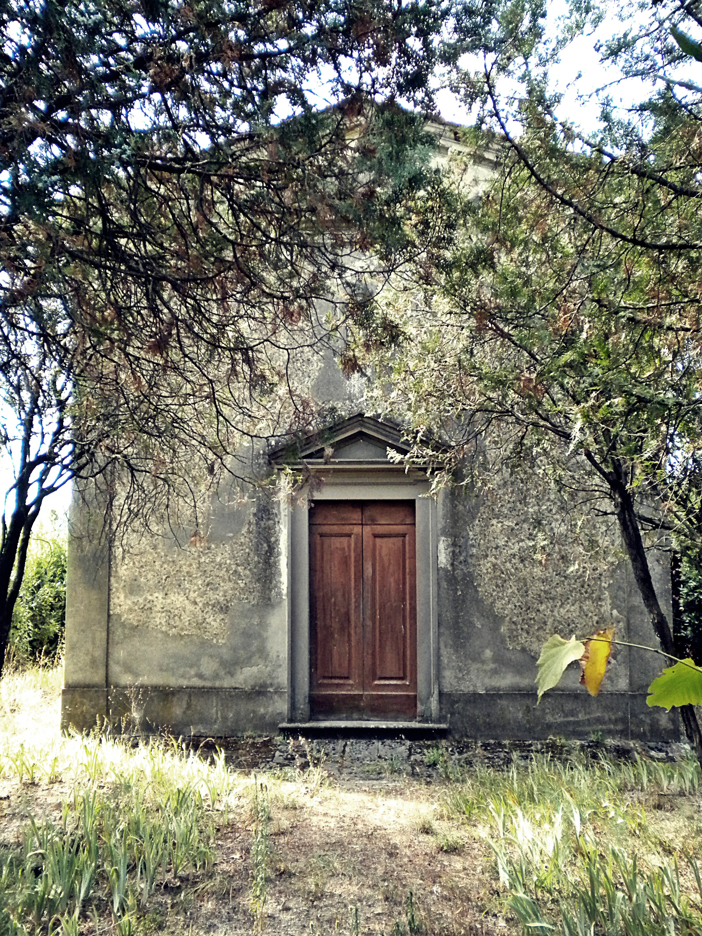 chapel